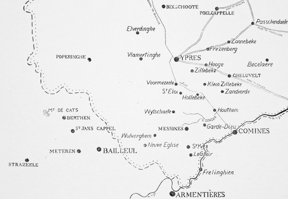 Diagram of the area Armentières–Bixschoote